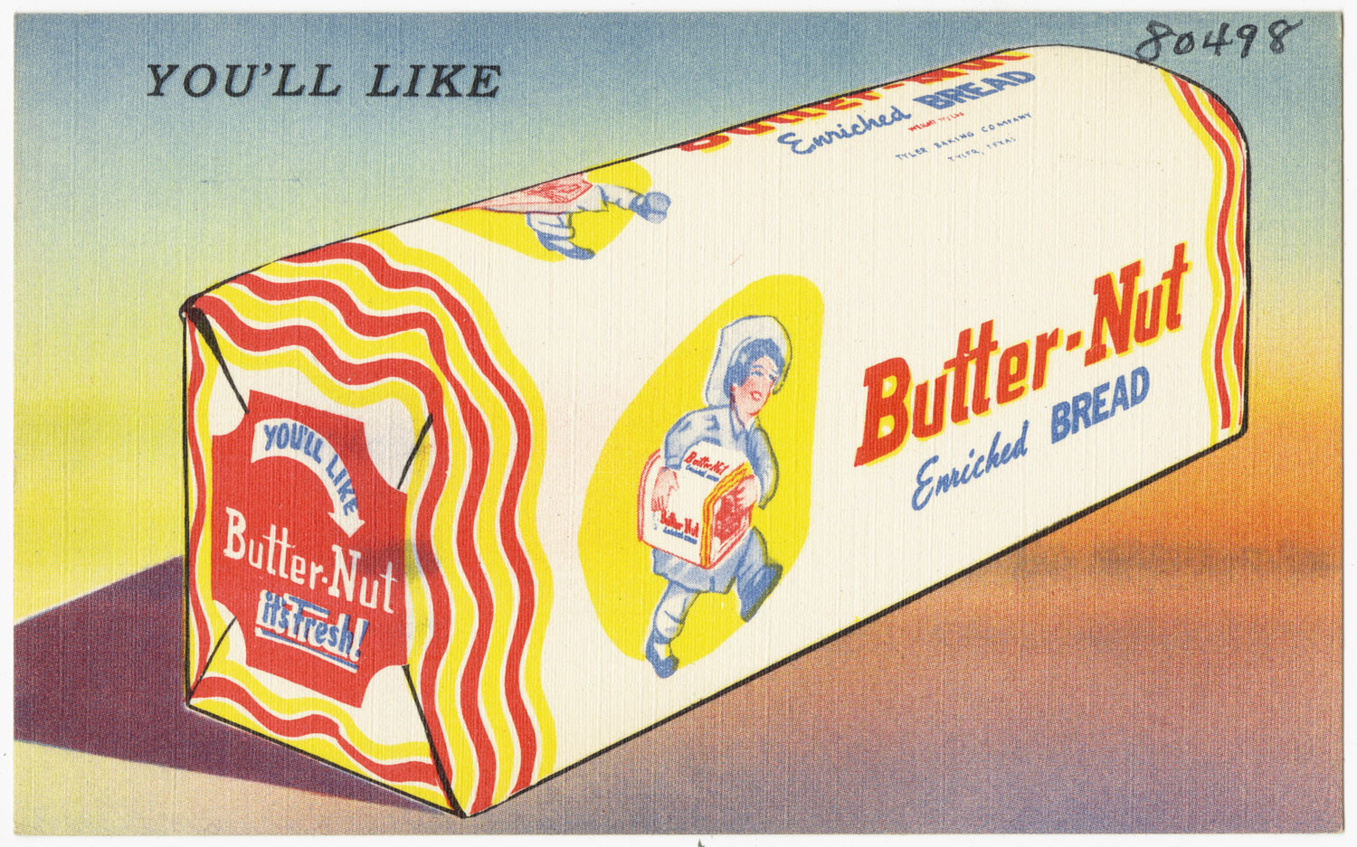 File name: 06_10_020573 Title: You'll like Butter-Nut Enriched Bread Created/Published: Nationwide Advertising Specialty Co., Tyler, Texas Date issued: 1930-1945 (approximate) Physical description: 1 print (postcard) : linen texture, color ; 3 1/2 x 5 1/2 in. Genre: Postcards Subjects: Notes: Title from item. Collection: The Tichnor Brothers Collection Location: Boston Public Library, Print Department Rights: No known restrictions